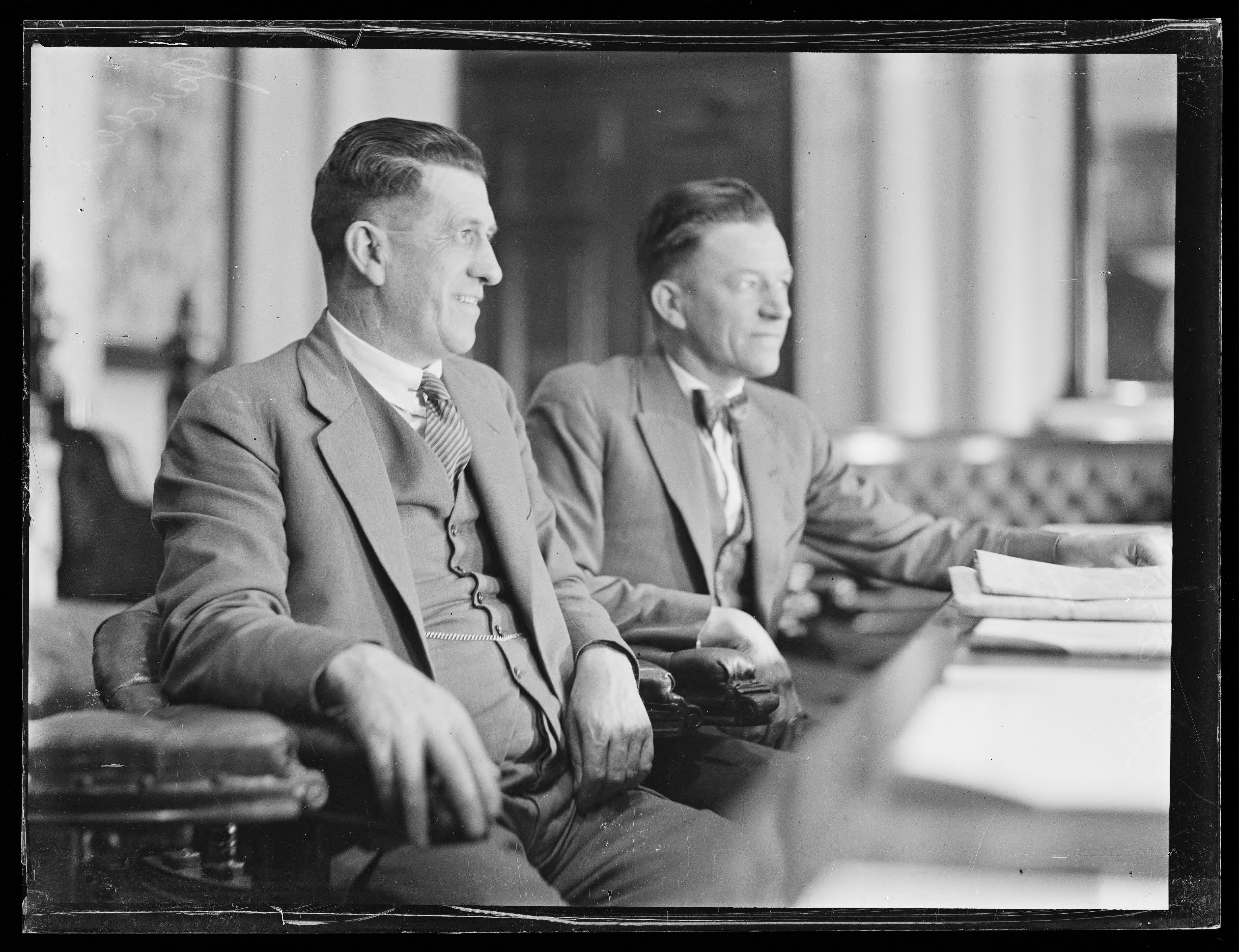 Australian politicians Jock Garden and Eddie Ward